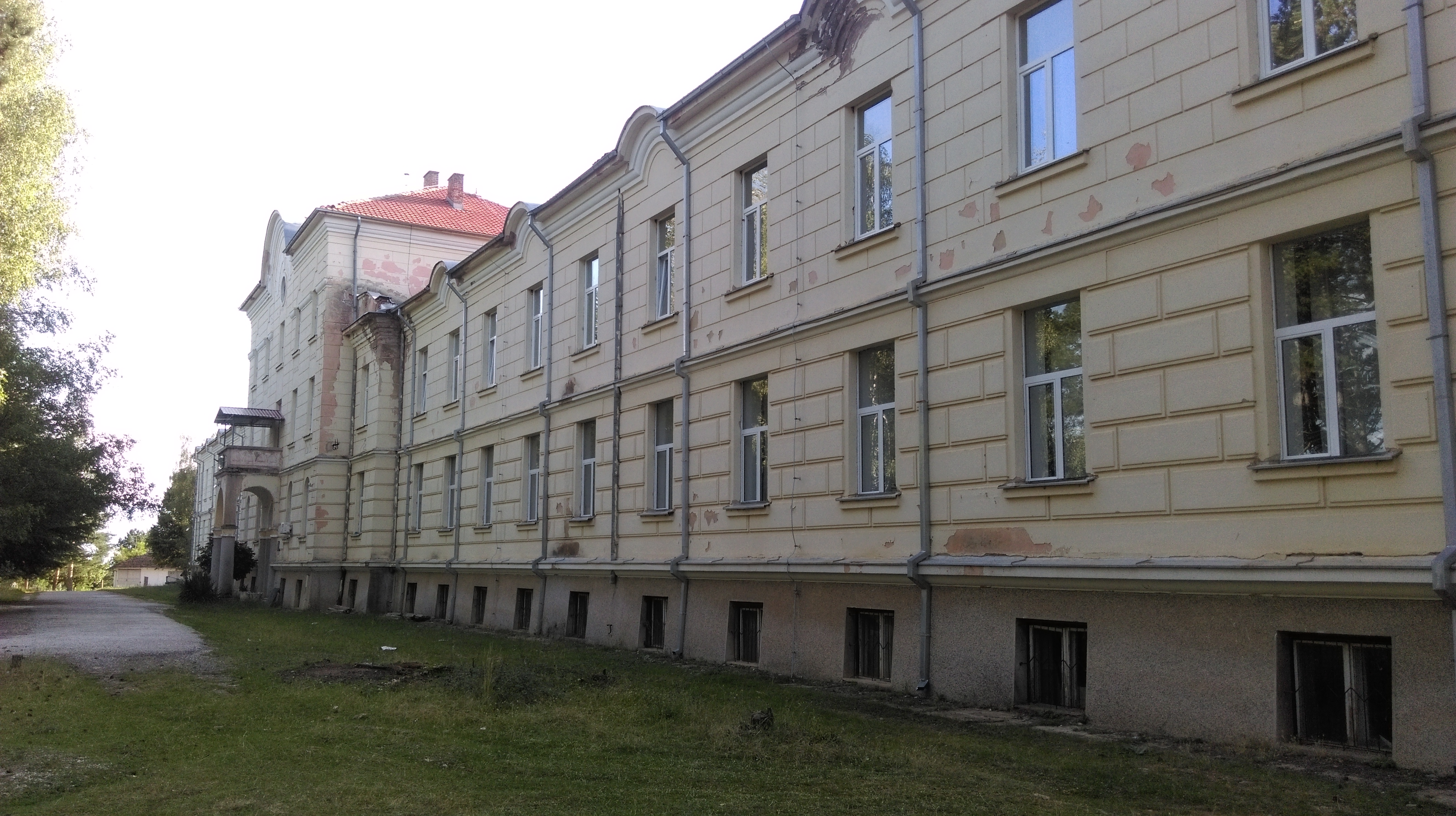 Car Samoil Secondary School (Former Ottoman barracks)